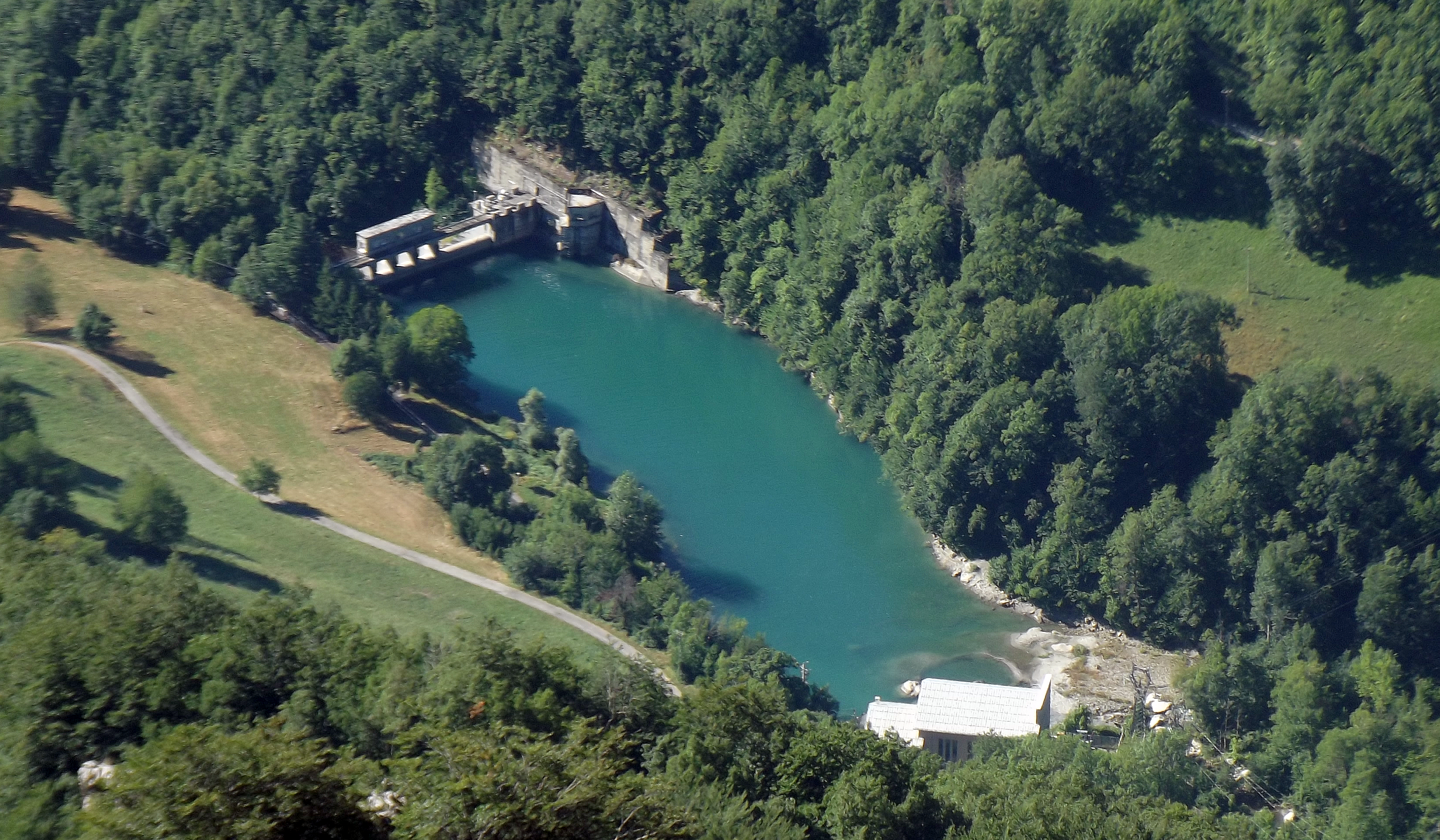 Reservoir of the hydroelectric power station of Fedio (Demonte, CN, Italy)